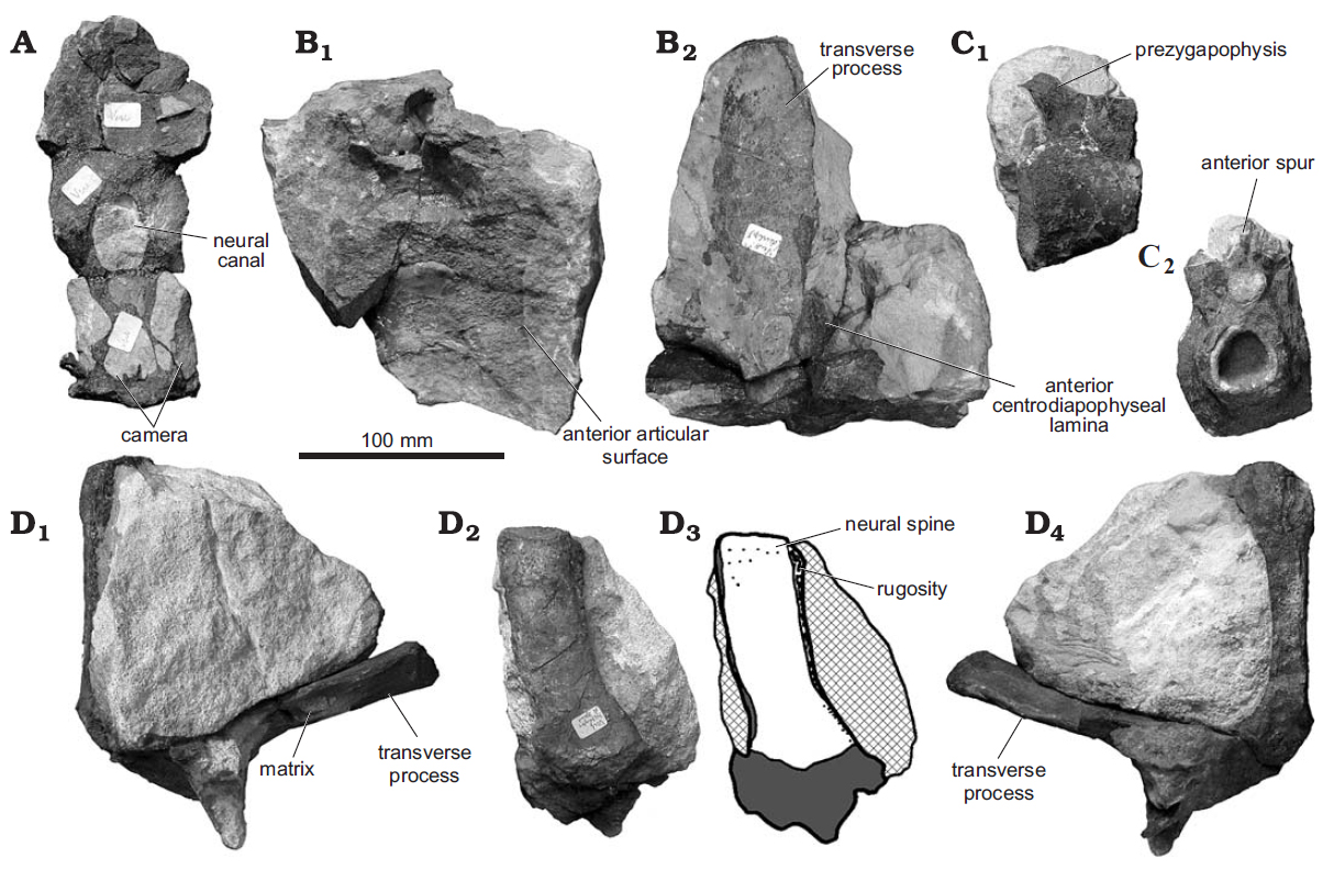 Tetanuran theropod Cruxicheiros newmanorum gen. et sp. nov. axial vertebrae (WARMS 15771) from the Chipping Norton Limestone Formation, Bathonian of the United Kingdom. A. Posterior cervical or anterior dorsal vertebra in posterior view. B. Partial middle−posterior dorsal vertebra in right lat− eral view showing a sagittal cross−section (B1) and in dorsal view (B2). C. Middle−distal caudal vertebra in left lateral (C1) and posterior (C2) views. D. Mid− dle−posterior dorsal neural arch in anterior (D1), right lateral (D2, D3), and posterior (D4) views. Photographs (A, B1, B2, C1, C2, D1, D2, D4) and line drawing (D3). Crossed−hatching indicates matrix and grey tone indicates broken bone.